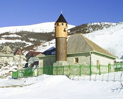 The village of Lukomir, Bosnia and Herzegovina